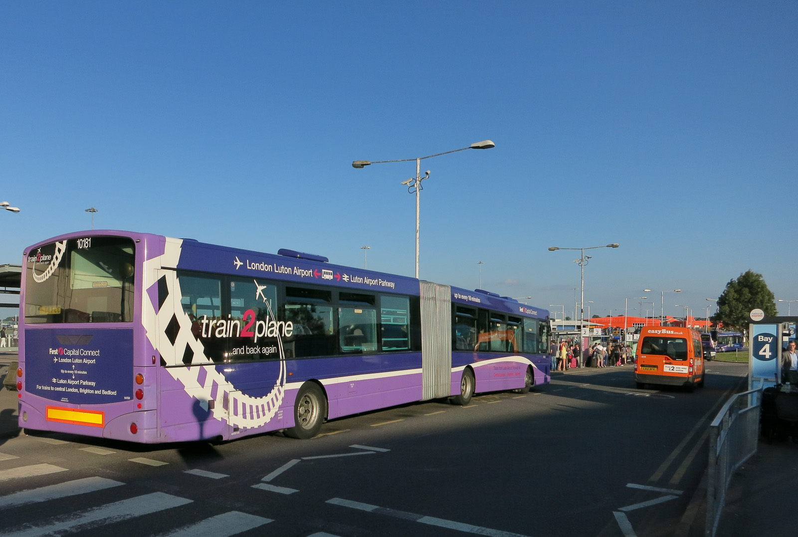 Bendy-bus at Luton Airport